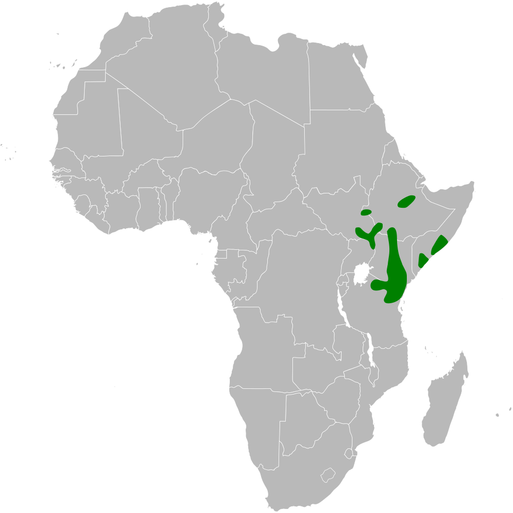 Mirafra hypermetra distribution map; using BlankMap-Africa.svg, based on